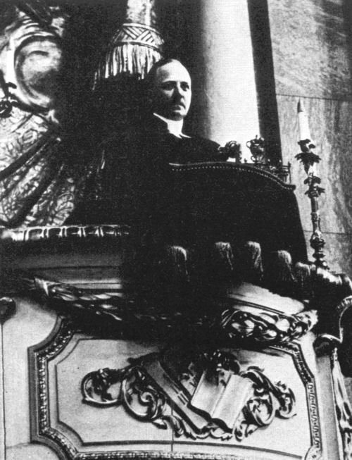 Erik Bergman (1886-1970), parish minister, father of the Swedish film director Ingmar Bergman. Photo: Sermon at Hedvig Eleonora Church, Stockholm. c. 1930. Photographer unknown. Source: Stockholms stadsmuseum.This fact is disputed comment of source